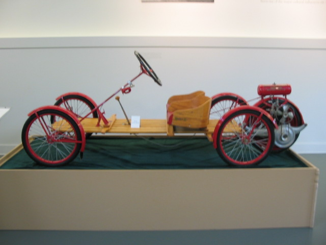 Photograph of a Smith Flyer on museum display, taken by me in July of 2004.